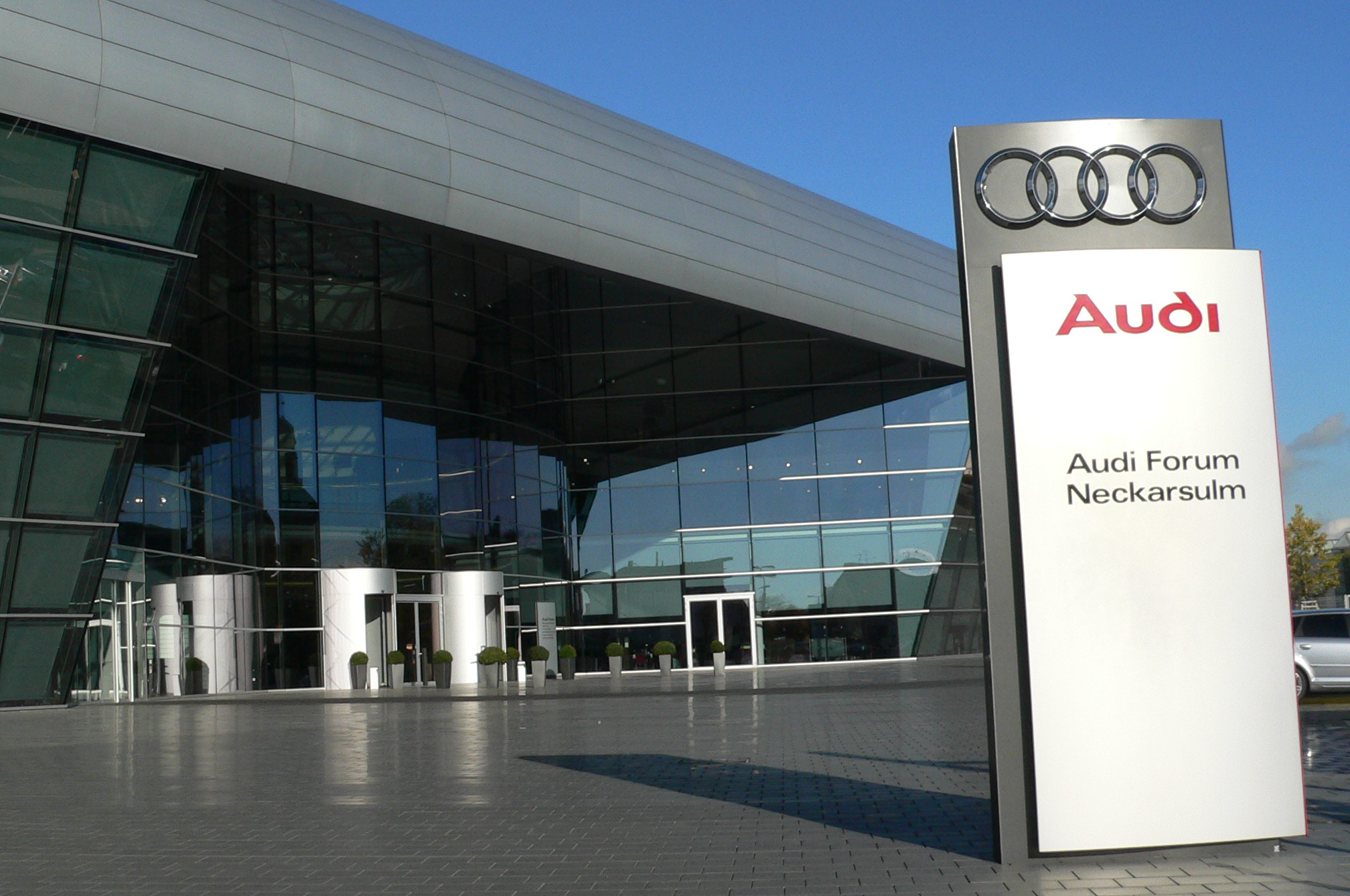 Audi-Forum of the Audi AG in the City Neckarsulm/Germany (with Audi Logo)